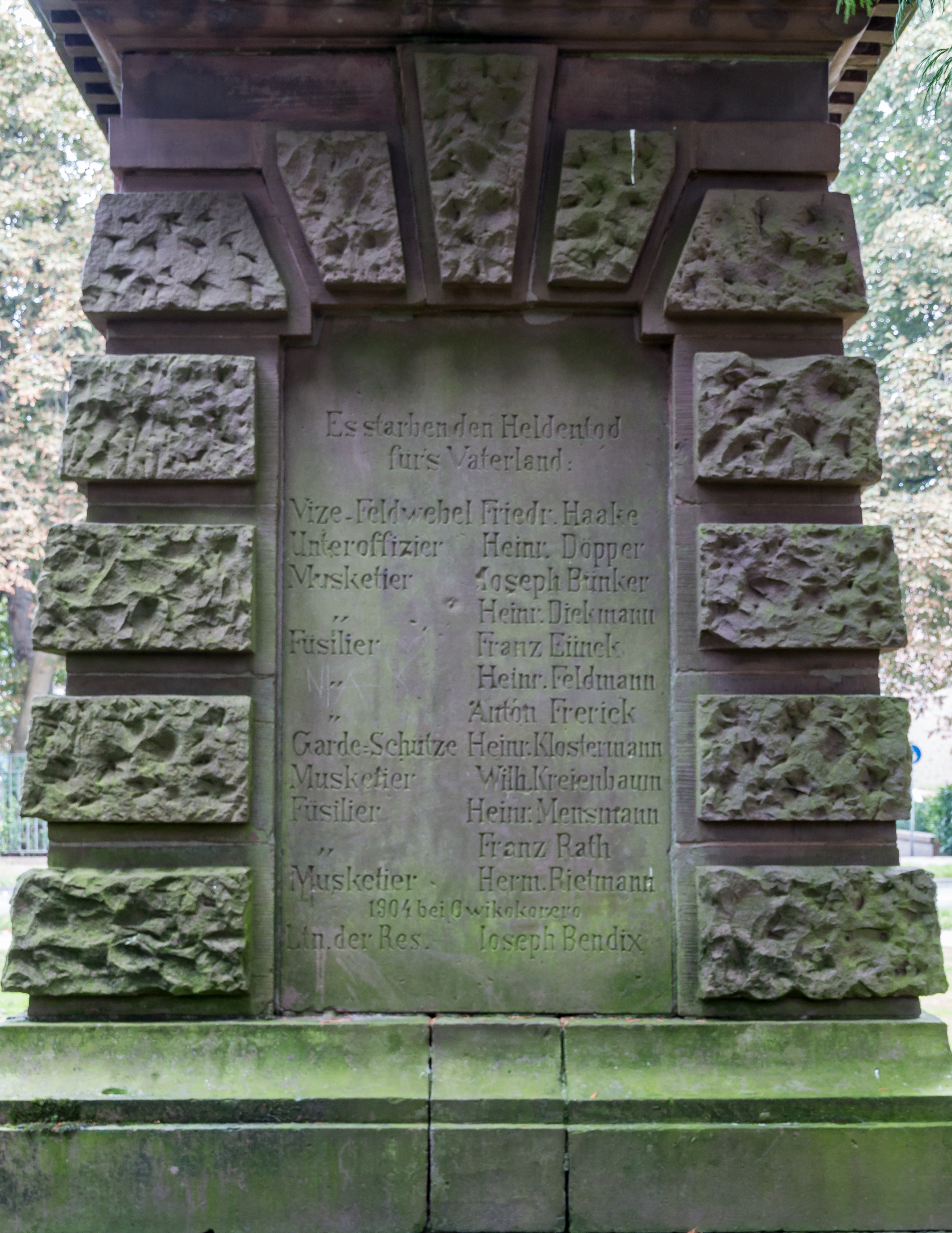 War memorial, Dülmen, North Rhine-Westphalia, Germany This image shows a heritage building in Germany, located in the North Rhine-Westphalian city Dülmen (no. 6). Sculpture TitleKriegerehrenmal 1870/71ArtistUnknown artistDateUnknown dateUnknown date